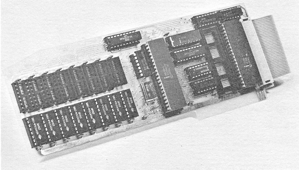 ALF Product's AD128K Memory Card circuit card, front side.